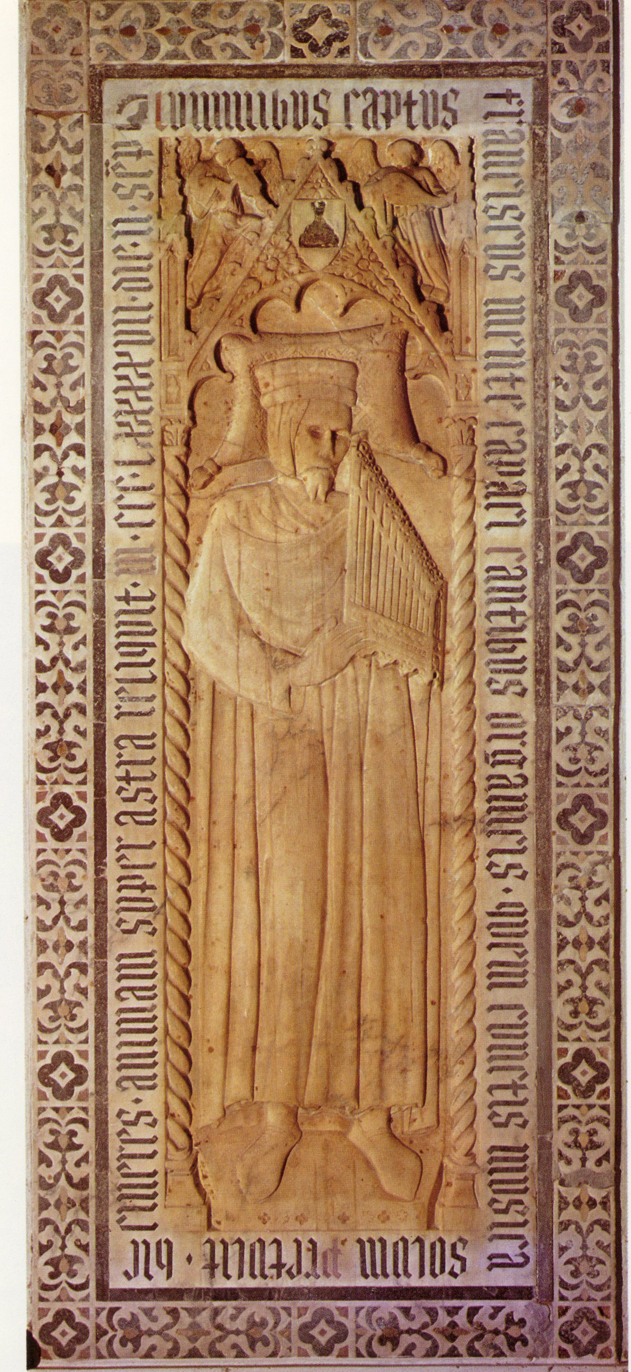 Tombstone of Italian composer Francesco Landini shown playing a portative organ.